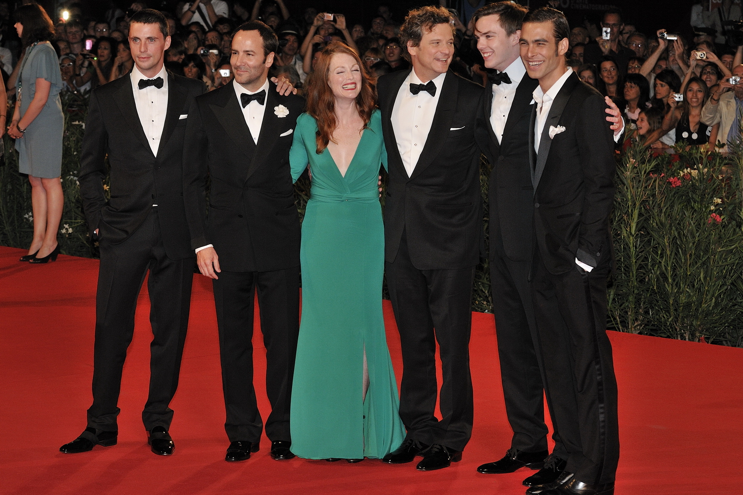 66th Venice Film Festival, 10th day (11/09/2009) on the red carpet with Matthew Goode, Tom Ford, Julianne Moore, Colin Firth, Nicholas Hoult and Jon Kortajarena for 'A Single Man'.